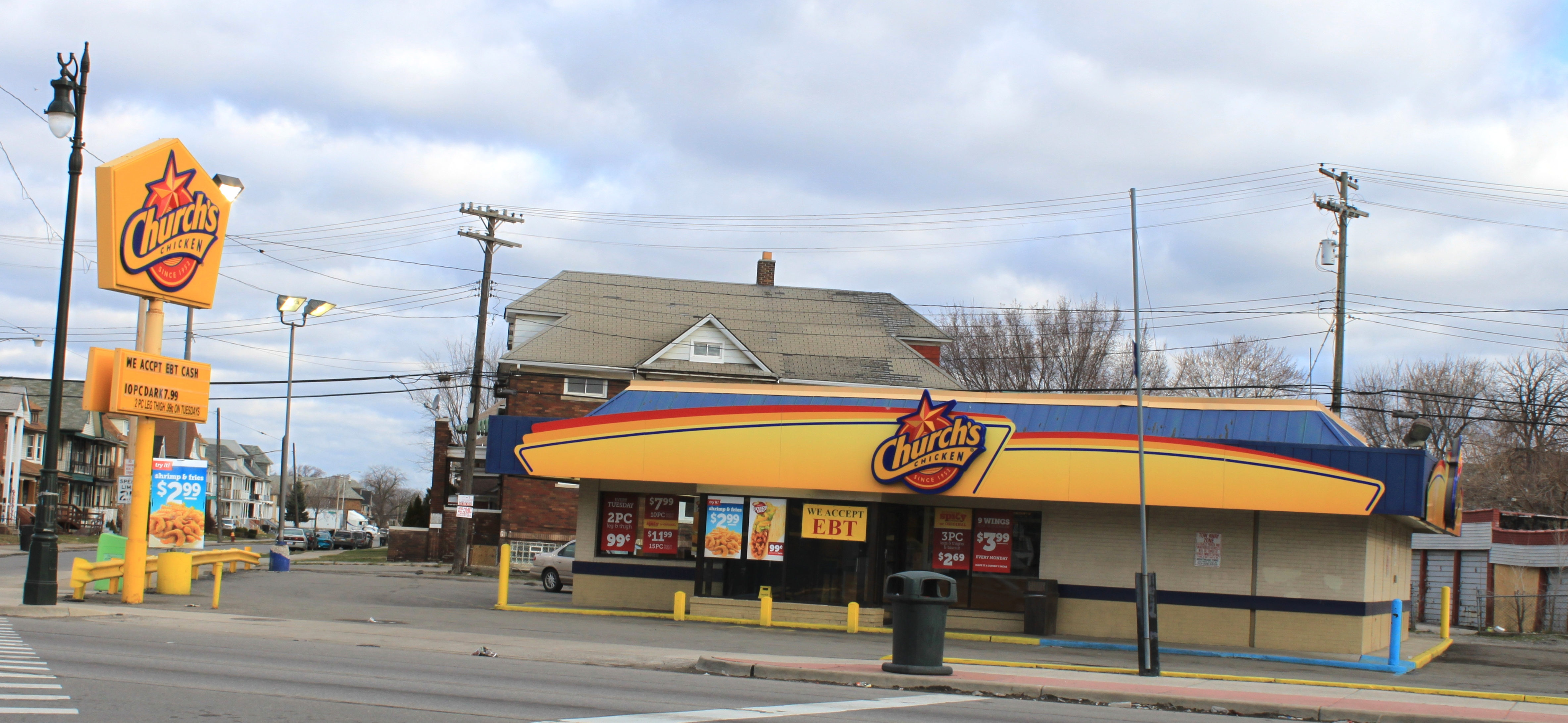 Church's Chicken restaurant, 7060 Michigan Avenue, Detroit, Michigan